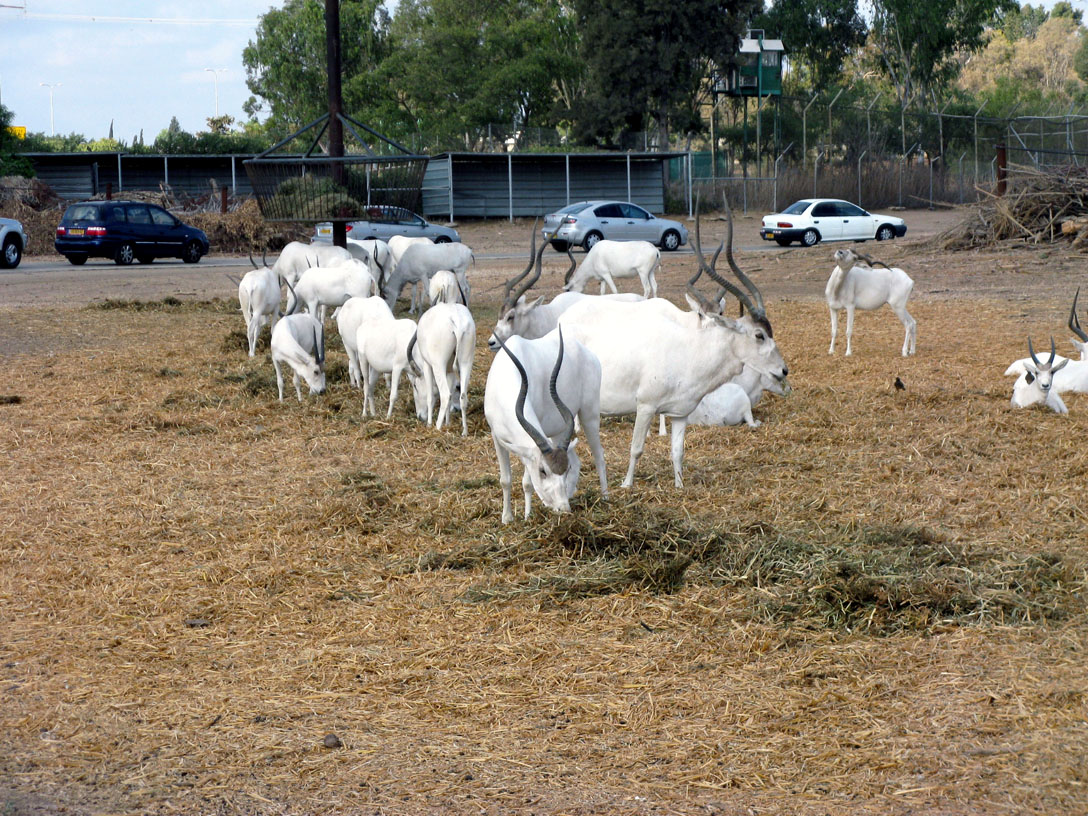 Addax nasomaculatus at Ramat-Gan Safari